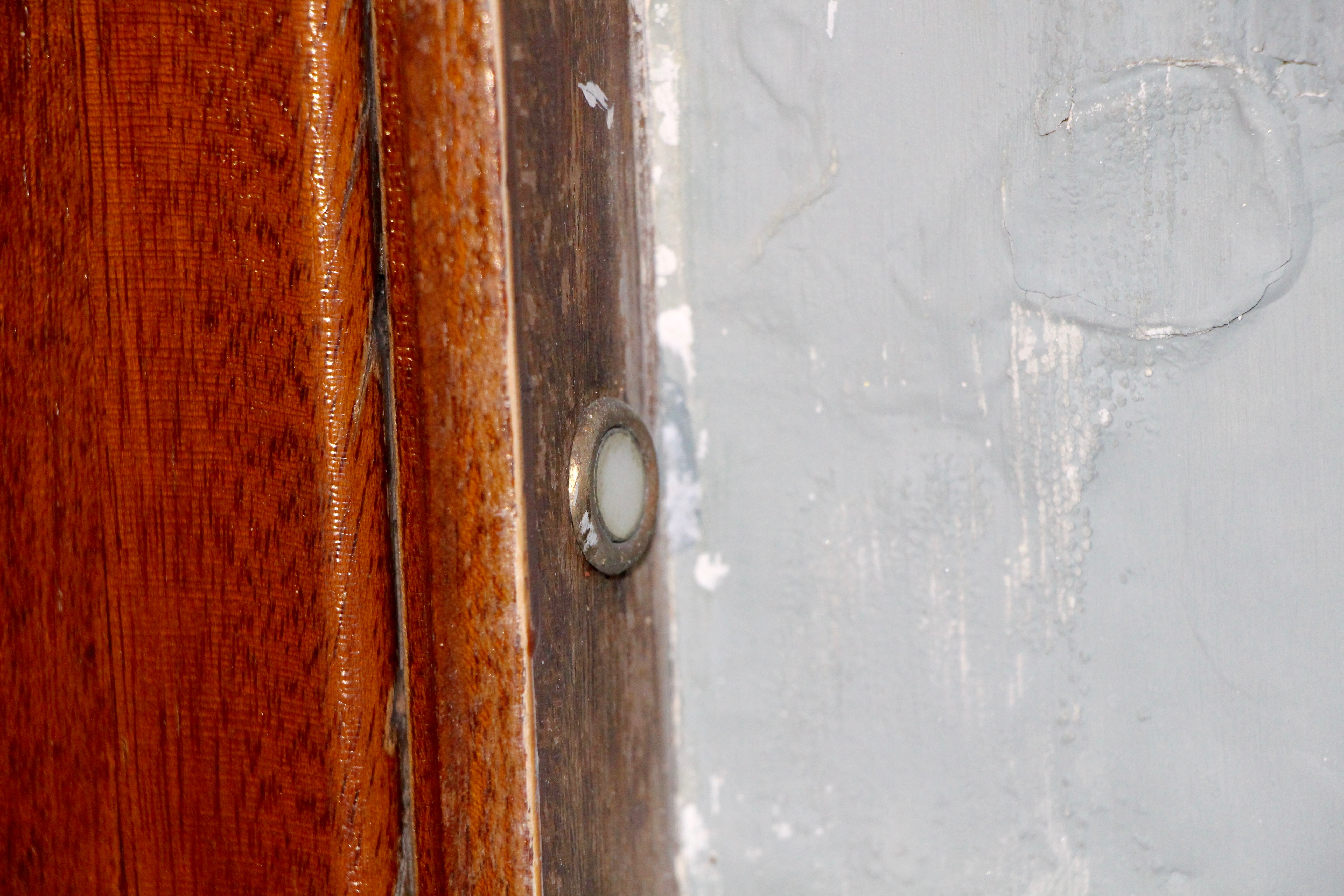 Electric bell to call the servants, Living room, Marius Dufresne House (Château Dufresne), 4040 Sherbrooke Street East, Montreal, Quebec, Canada.